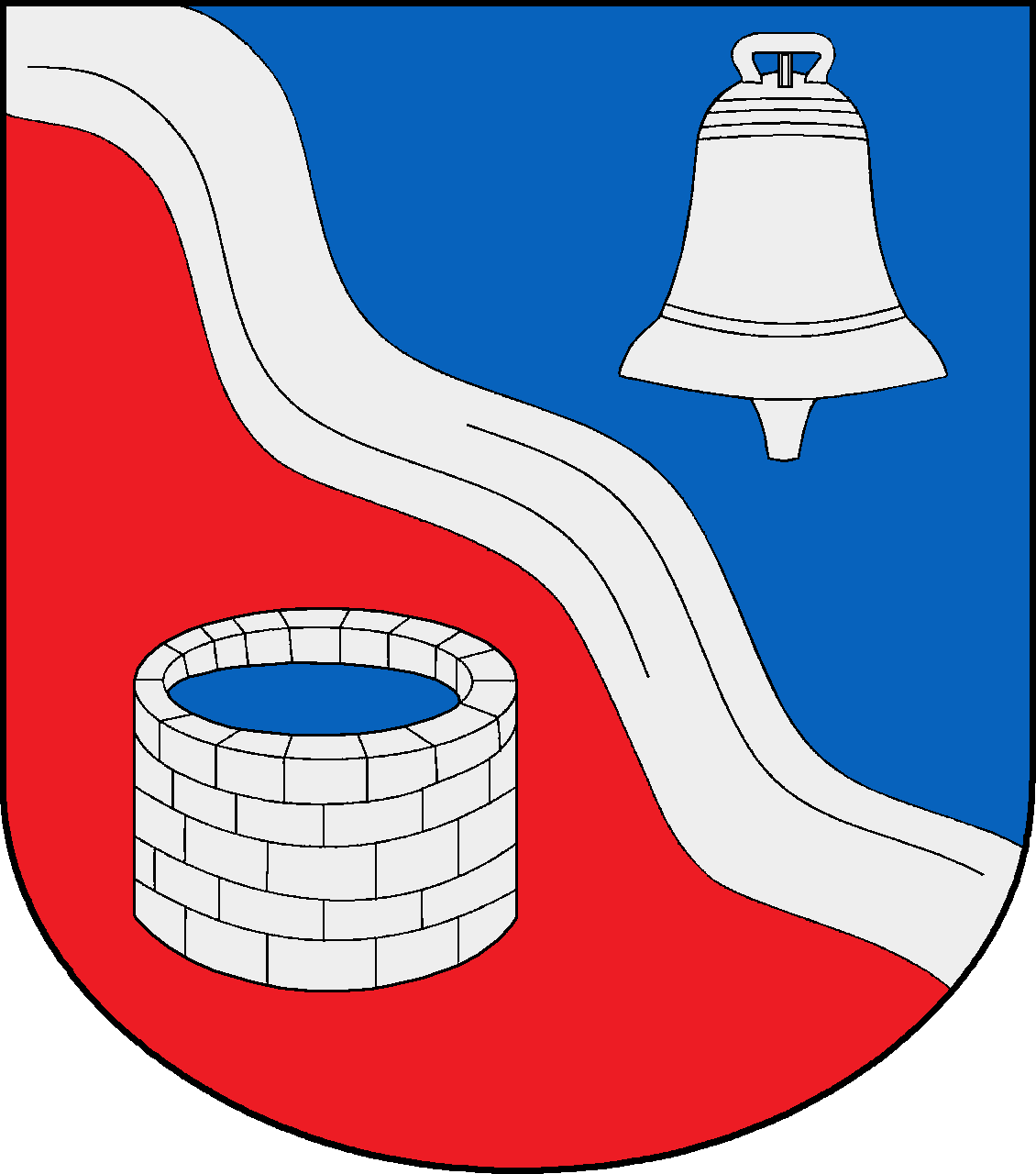 Coat of arms of the municipality Schürensöhlen in Schleswig-Holstein, Germany.